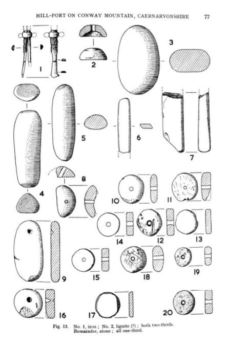 Finds from Caer Seion